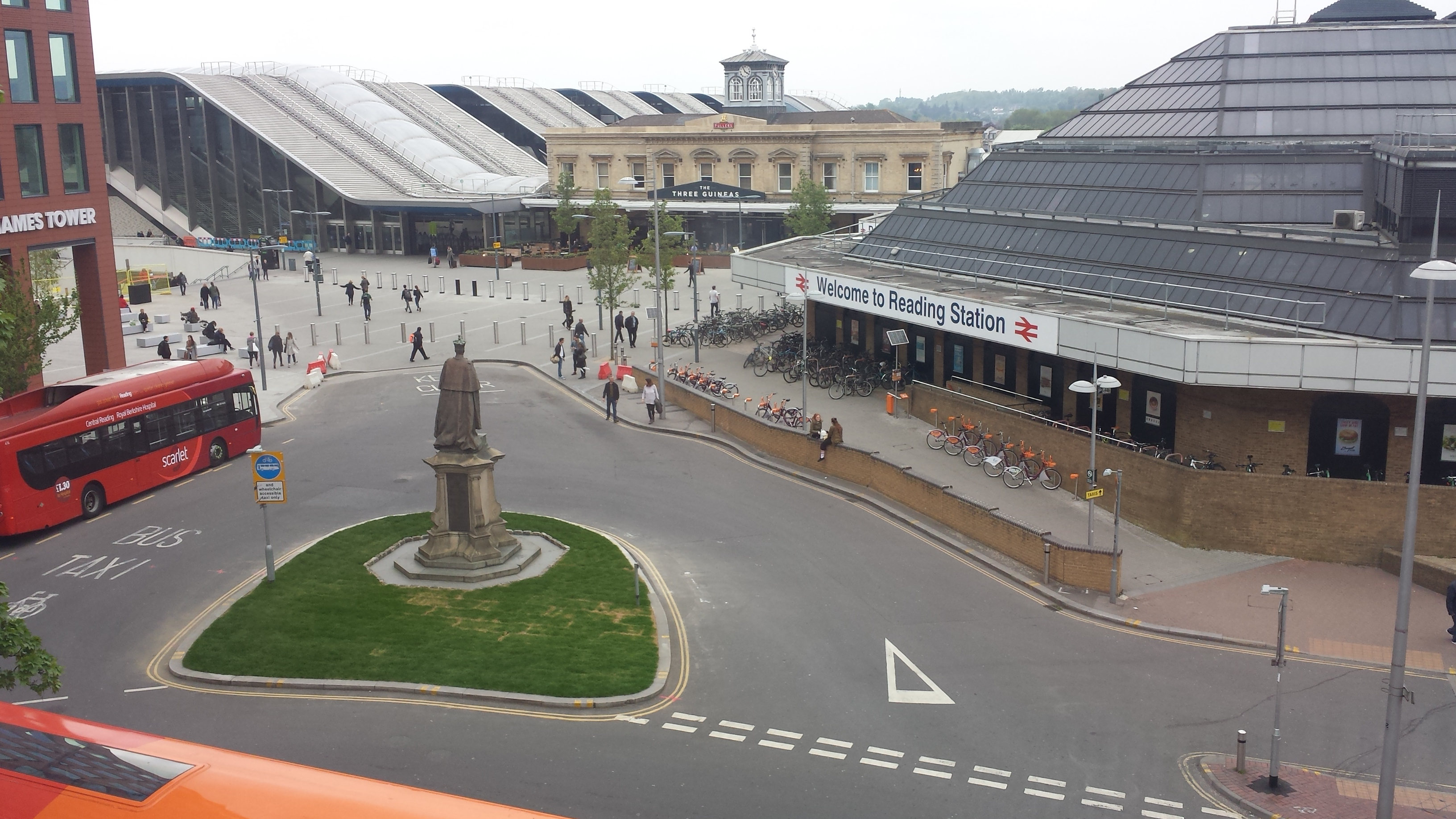 The new (nearly completed) Station Square in front of Reading railway station. Viewed from the third floor of the Malmaison Hotel. The buildings are (from left to right) Thames Tower offices, the 2014 entrance and bridge concourse, the 1860 station building (now serving as a pub), and the 1989 station building.